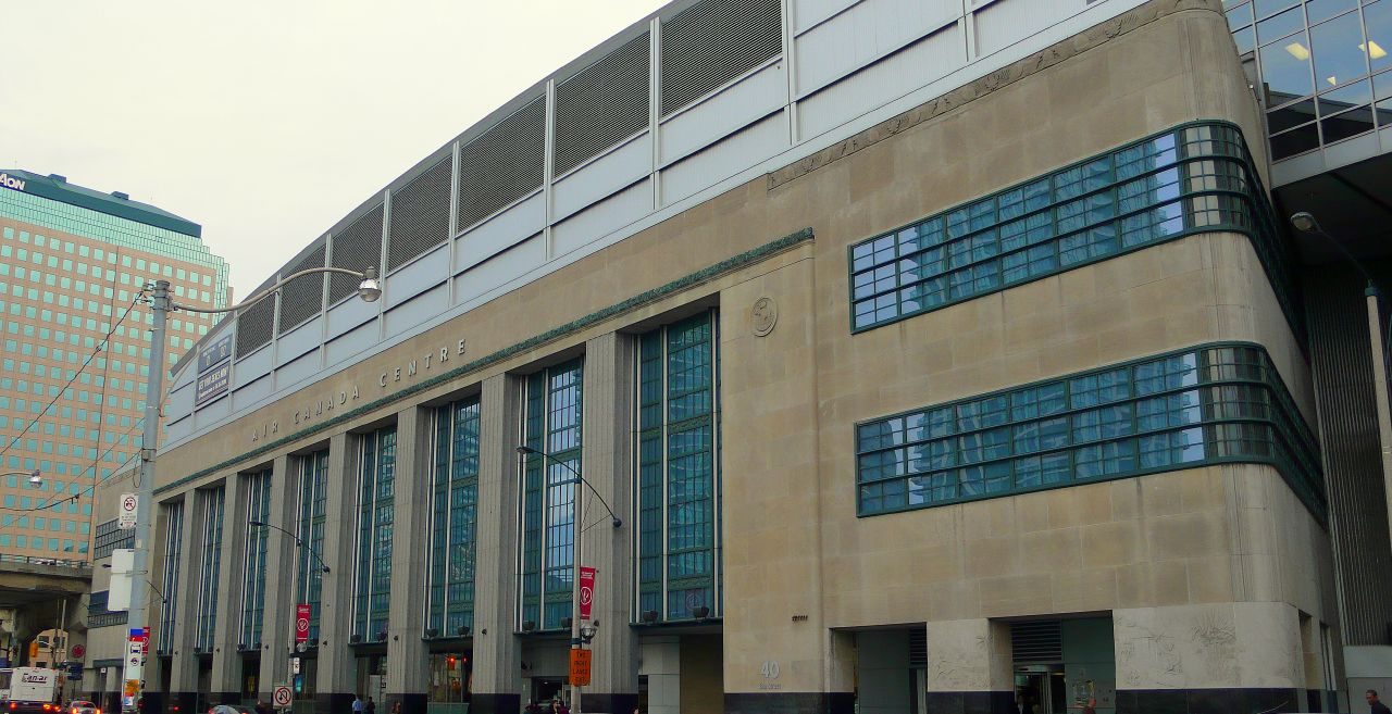 The Air Canada Centre as seen from Bay Street, Toronto, Ontario, Canada. The ACC, completed in 1999, incorporates the Art Deco façade of the Postal Delivery Building, completed in 1941.